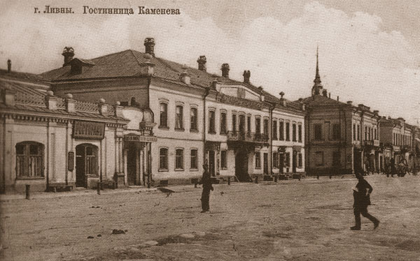 Old_Livny